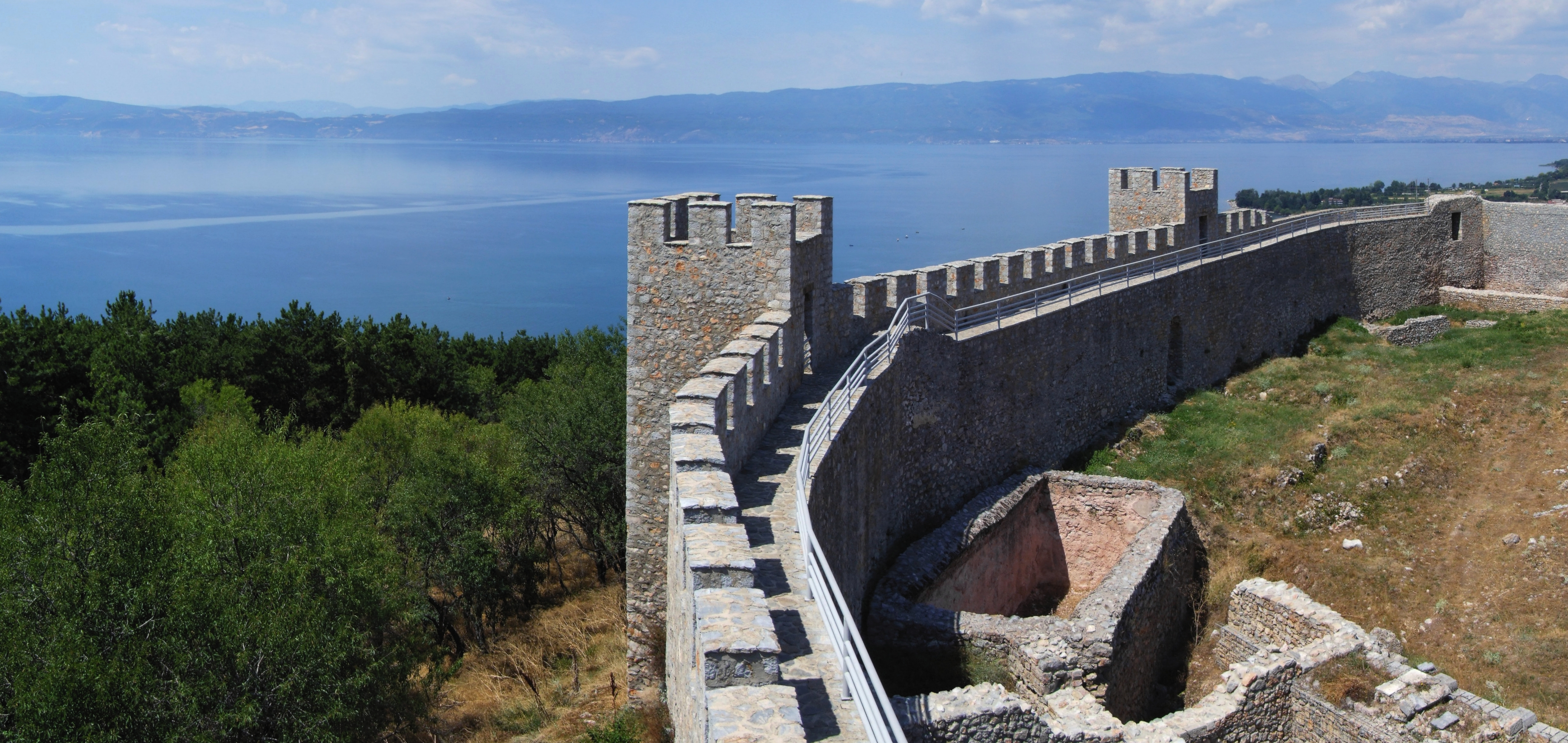 Samuil's Fortress and Ohrid Lake - Ohrid, Macedonia